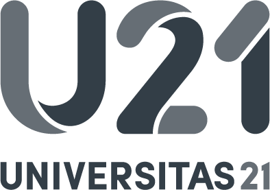 U21 logo